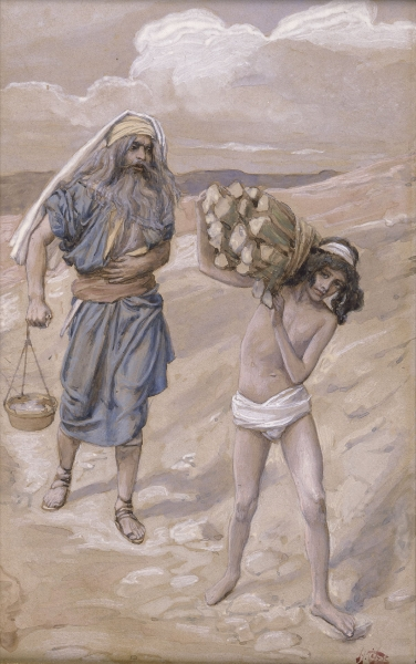 Isaac Bears the Wood for His Sacrifice, c. 1896-1902, by James Jacques Joseph Tissot (French, 1836-1902), gouache on board, 8 3/4 x 5 7/16 in. (22.2 x 13.8 cm), at the Jewish Museum, New York